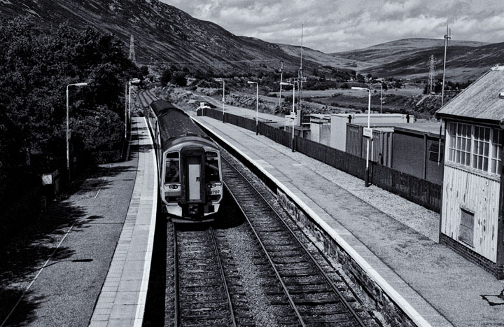 Lunch Time Train to Wick at Helmsdale